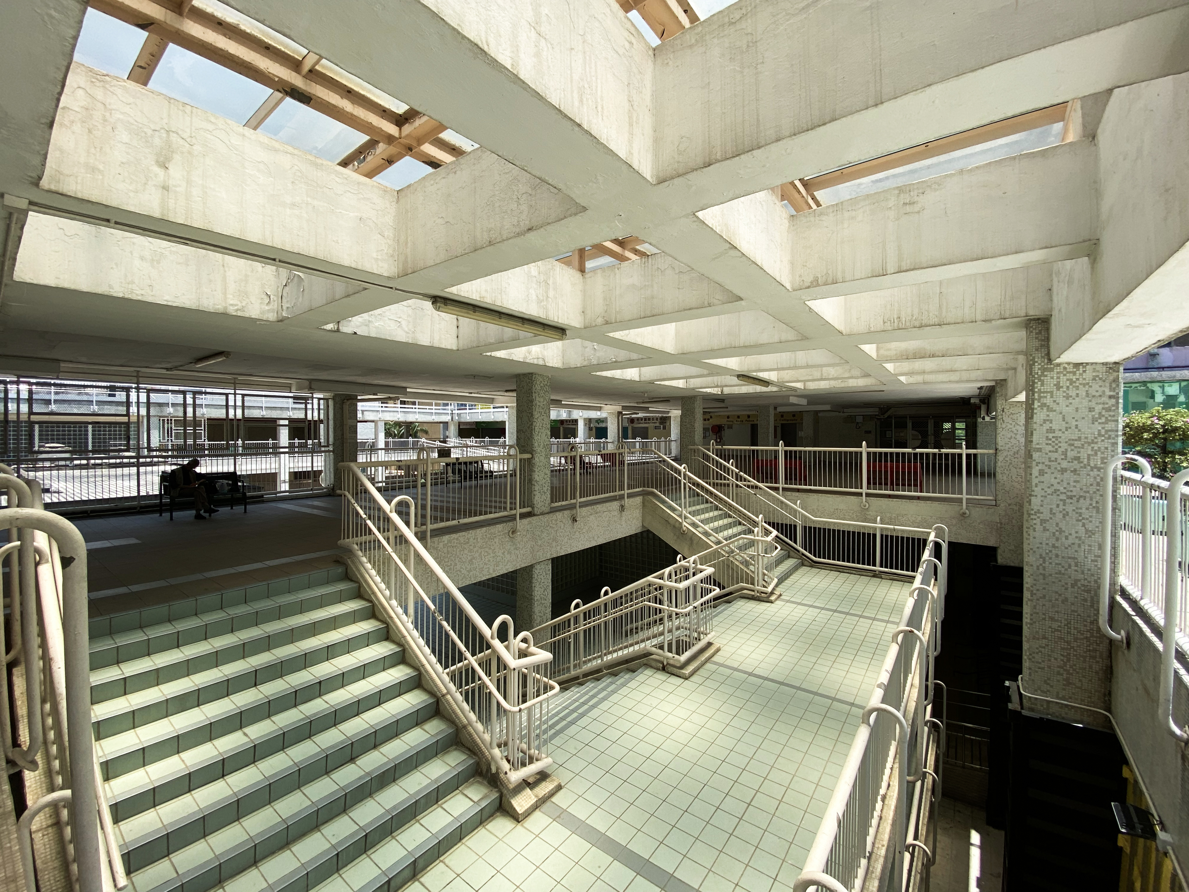 Lai Kok Estate Stairs to Shopping Centre